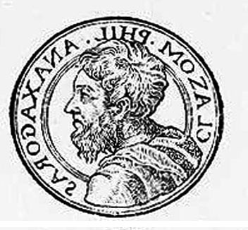 Anaxagoras, presocratic philosopher.